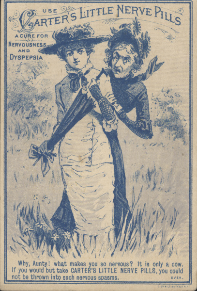 Persistent URL: Subject (TGM): Women; Aged persons; Meadows; Cows; Patent medicines; Pharmacists; Drugstores; Caricatures; Keywords: Carter's Little Nerve Pills